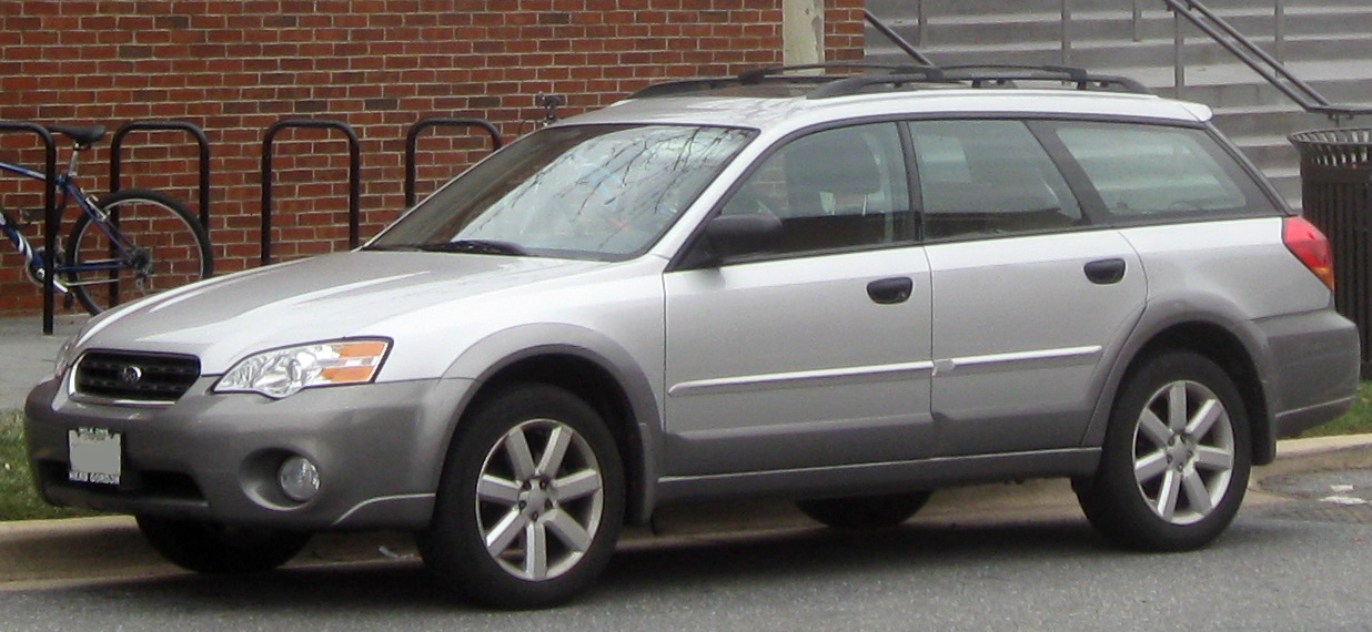 2005-2007 Subaru Outback photographed in College Park, Maryland, USA.